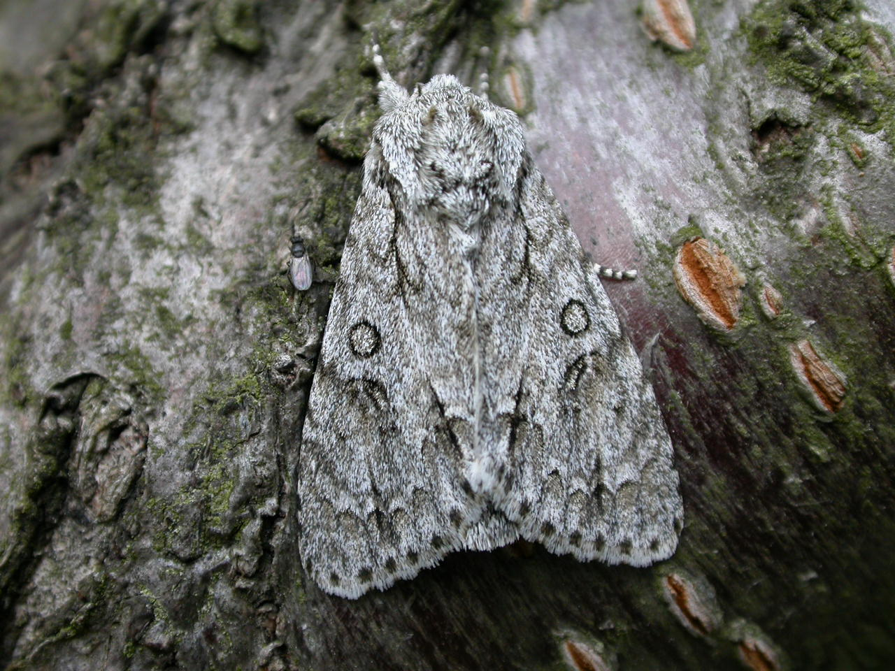 Acronicta aceris, to MV light, Hellerup, Denmark, 2 June 2003